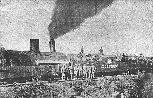 Armoured train "Khortytsia", used by the Sich Riflemen, 1919.